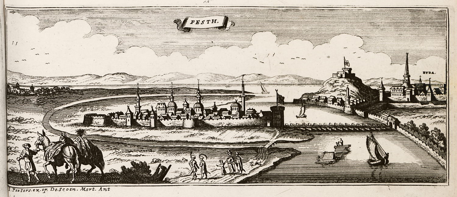 Jacob Peeters. Korte Beschryvinghe, Ende Aen-Wysinghe der Plaetsen in desfn Boeck, met hunnen teghenwoordigen Standt, pertinentelijck uytghebeldt, in Oostenryck, Antwerp, 1686